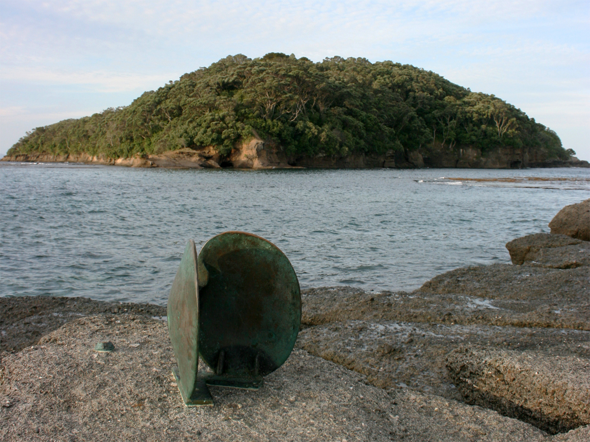 Te Hāwere-a-Maki / Goat Island, which is in the Goat Island Marine Reserve, near Leigh, North Island